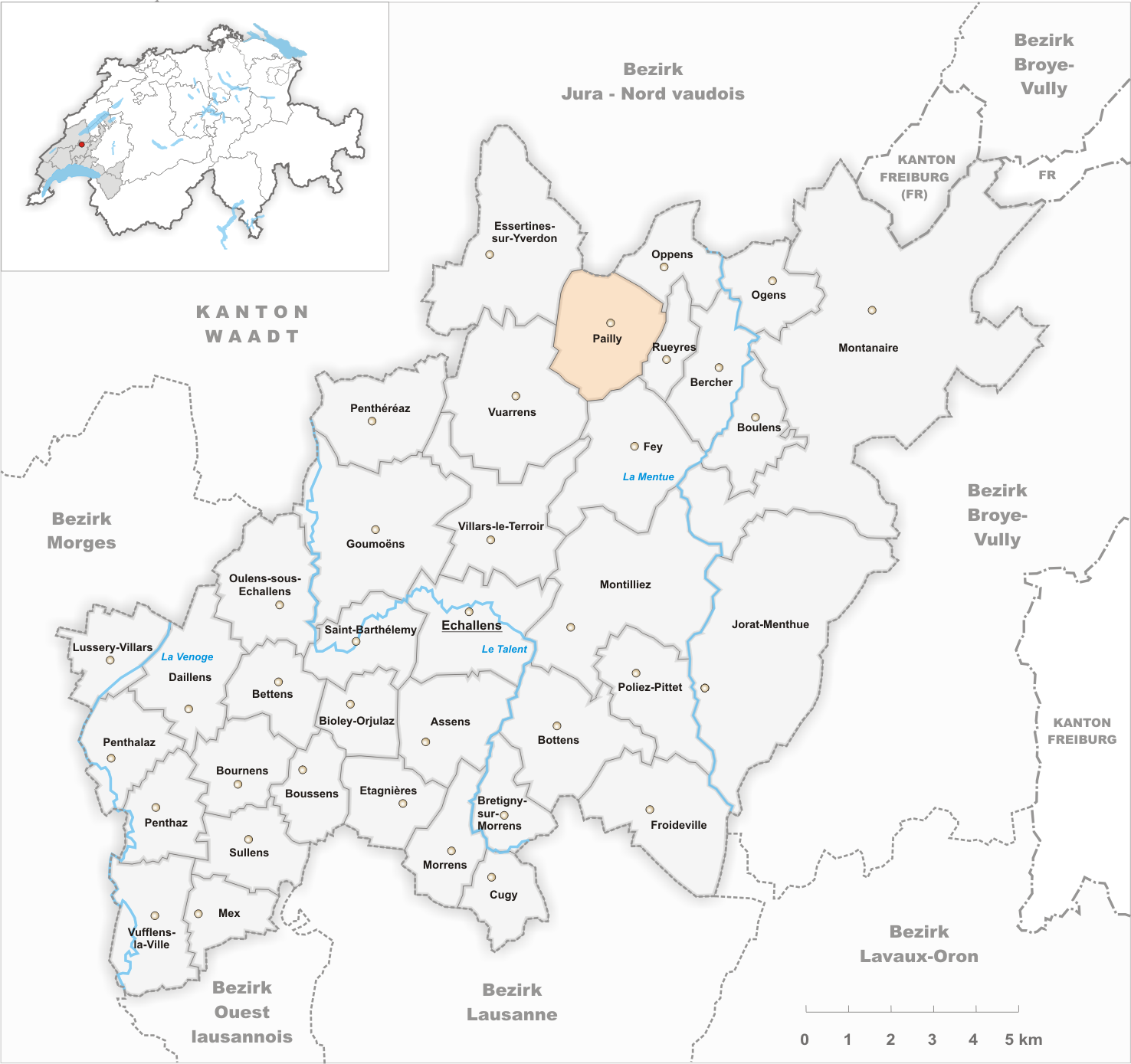 Municipality Pailly